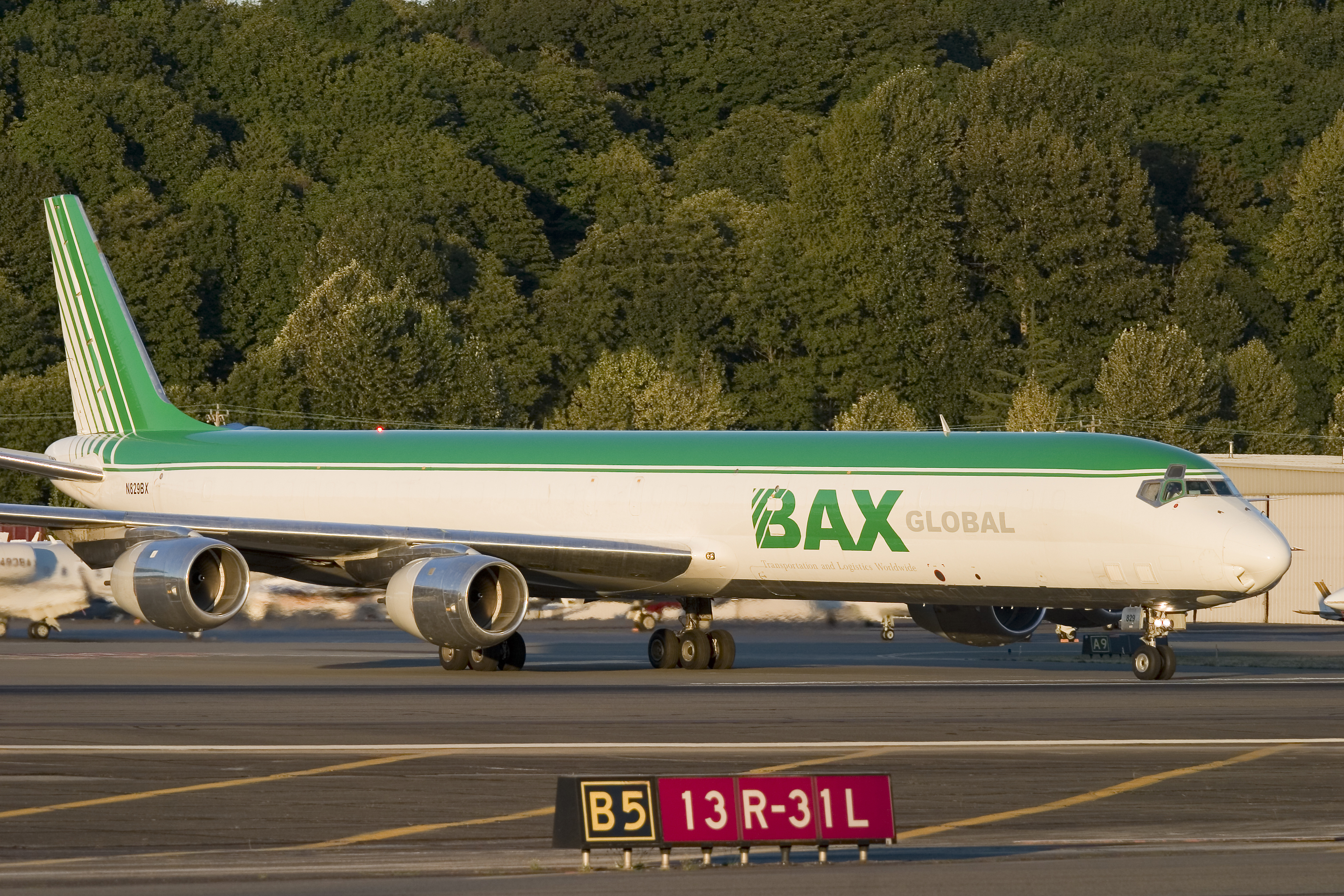 N829BX, a BAX Global DC-8-71(F), taxis for takeoff at Boeing Field in Seattle. Note the high-bypass CFM-56 engines unique to the Super Seventy series.